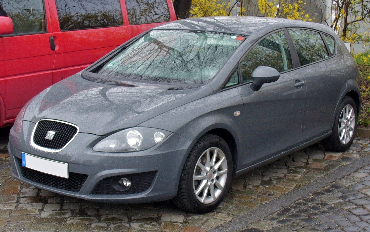 Seat Leon